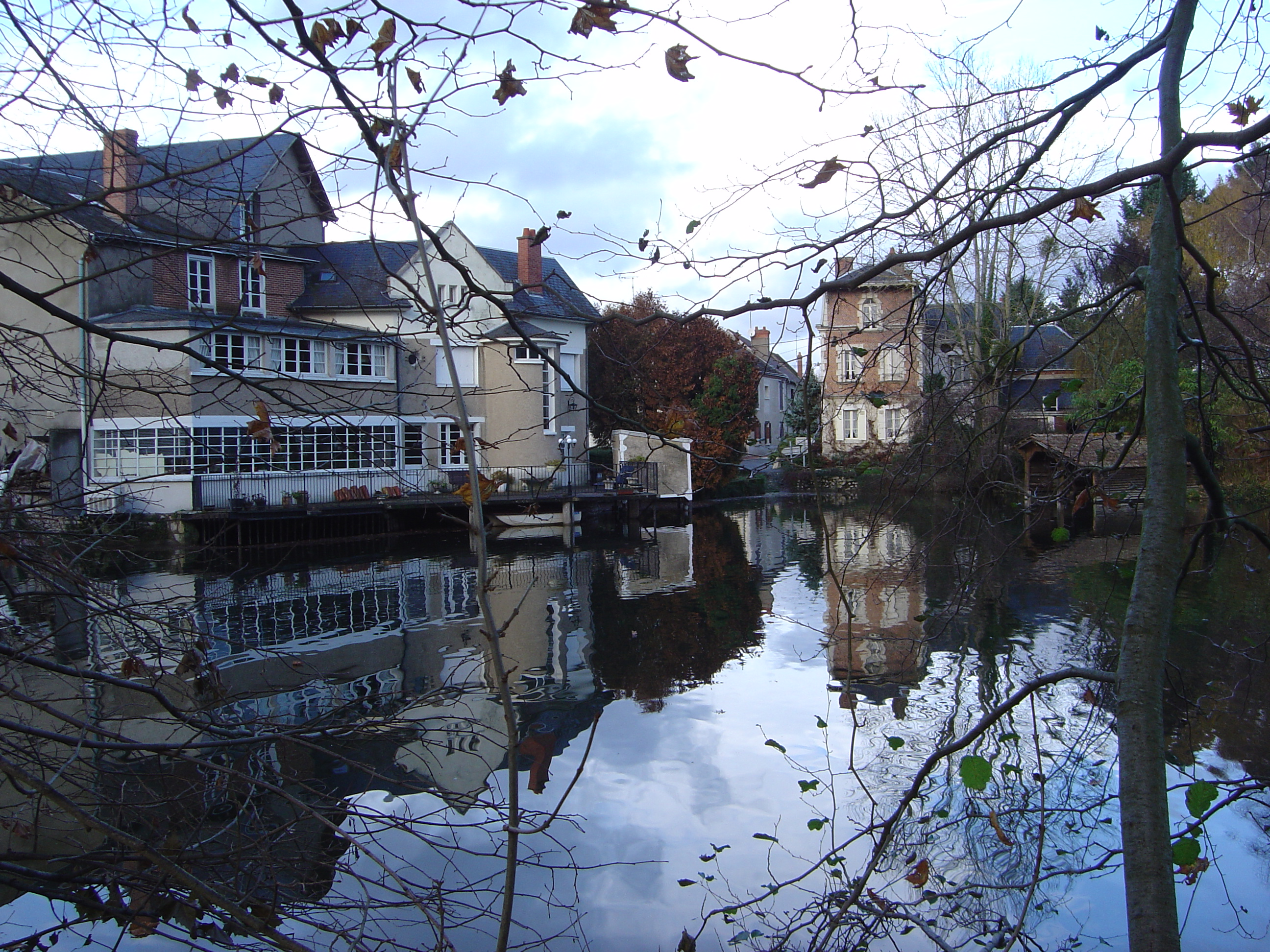 On the Loiret river south of Orléans, Loiret, France